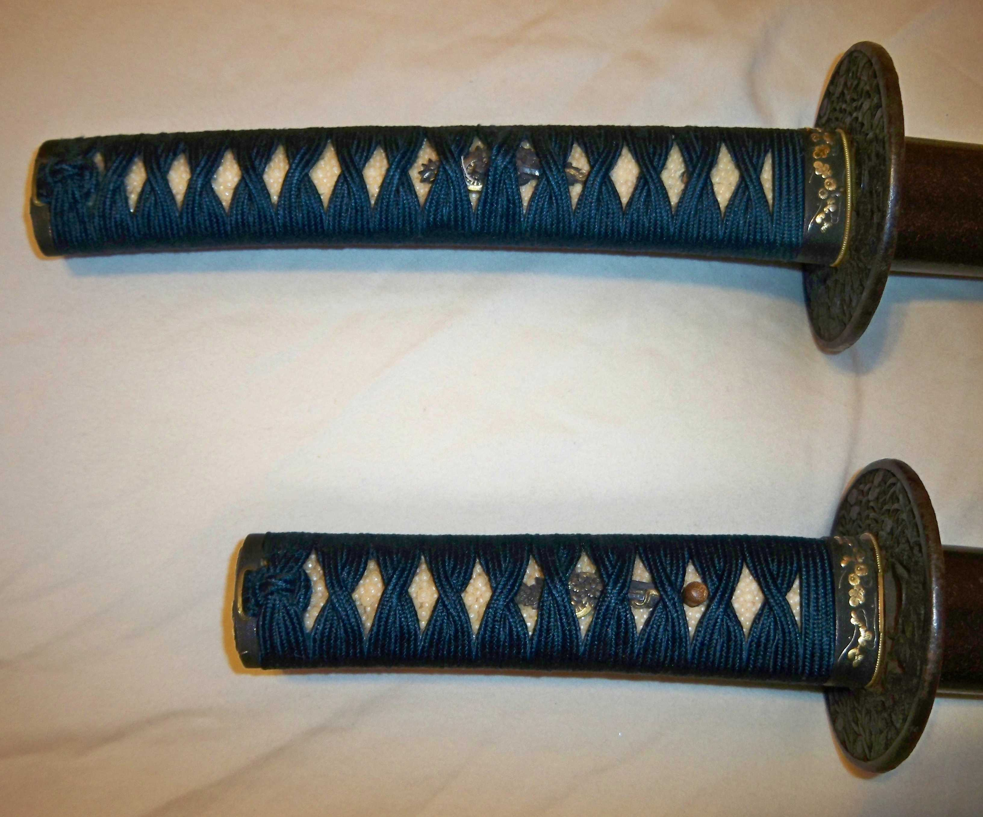 Antique Japanese daisho tsuka.